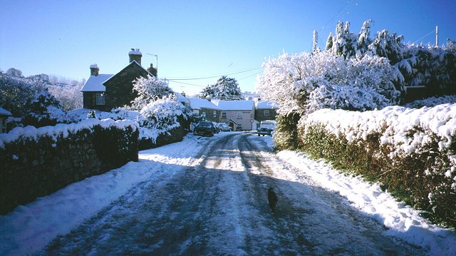 Llangynidr. Approaching the village from the north, having driven as close as the roads would allow. Very attractive Usk Valley village.